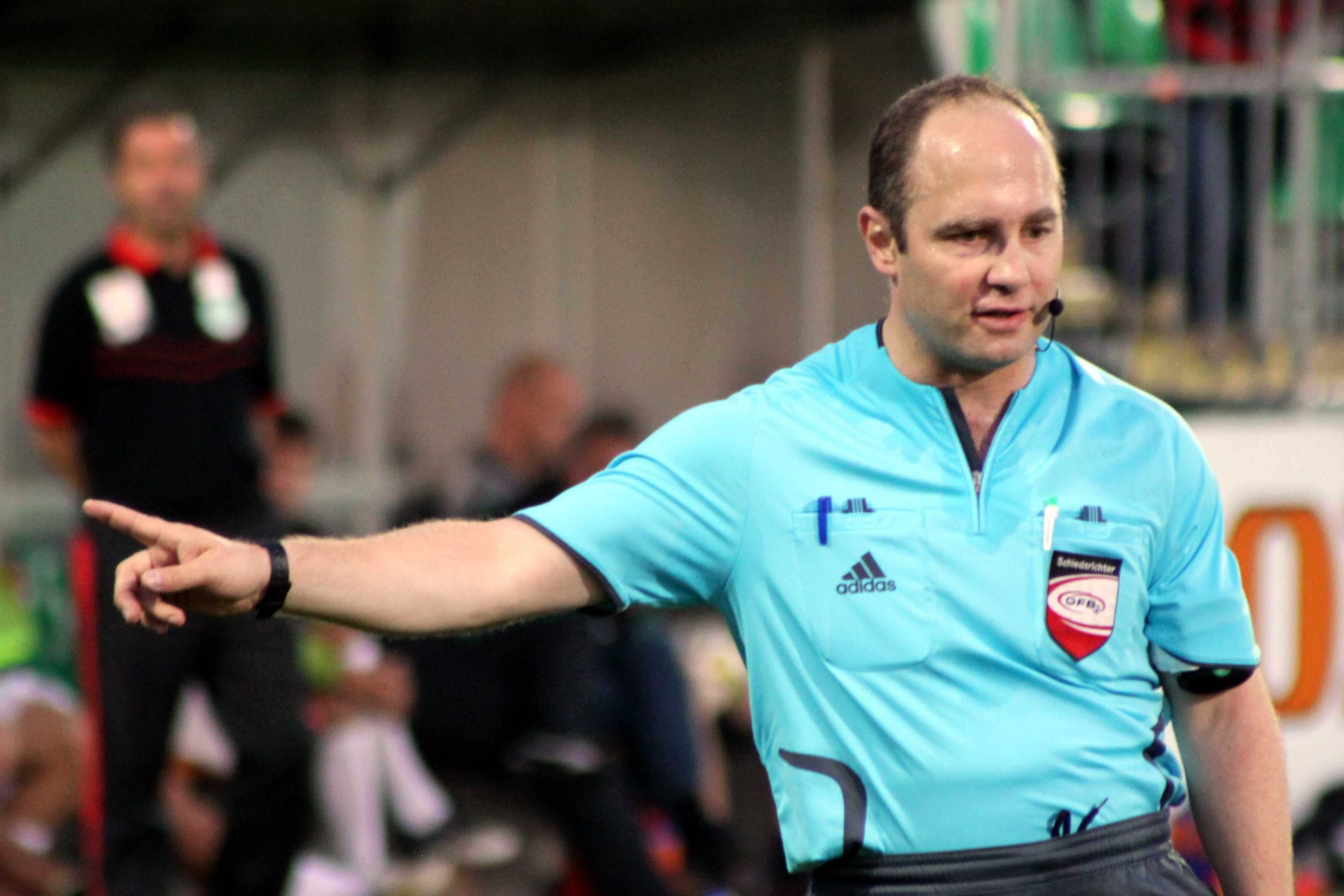 Thomas Prammer - Referee (association football) of Austria